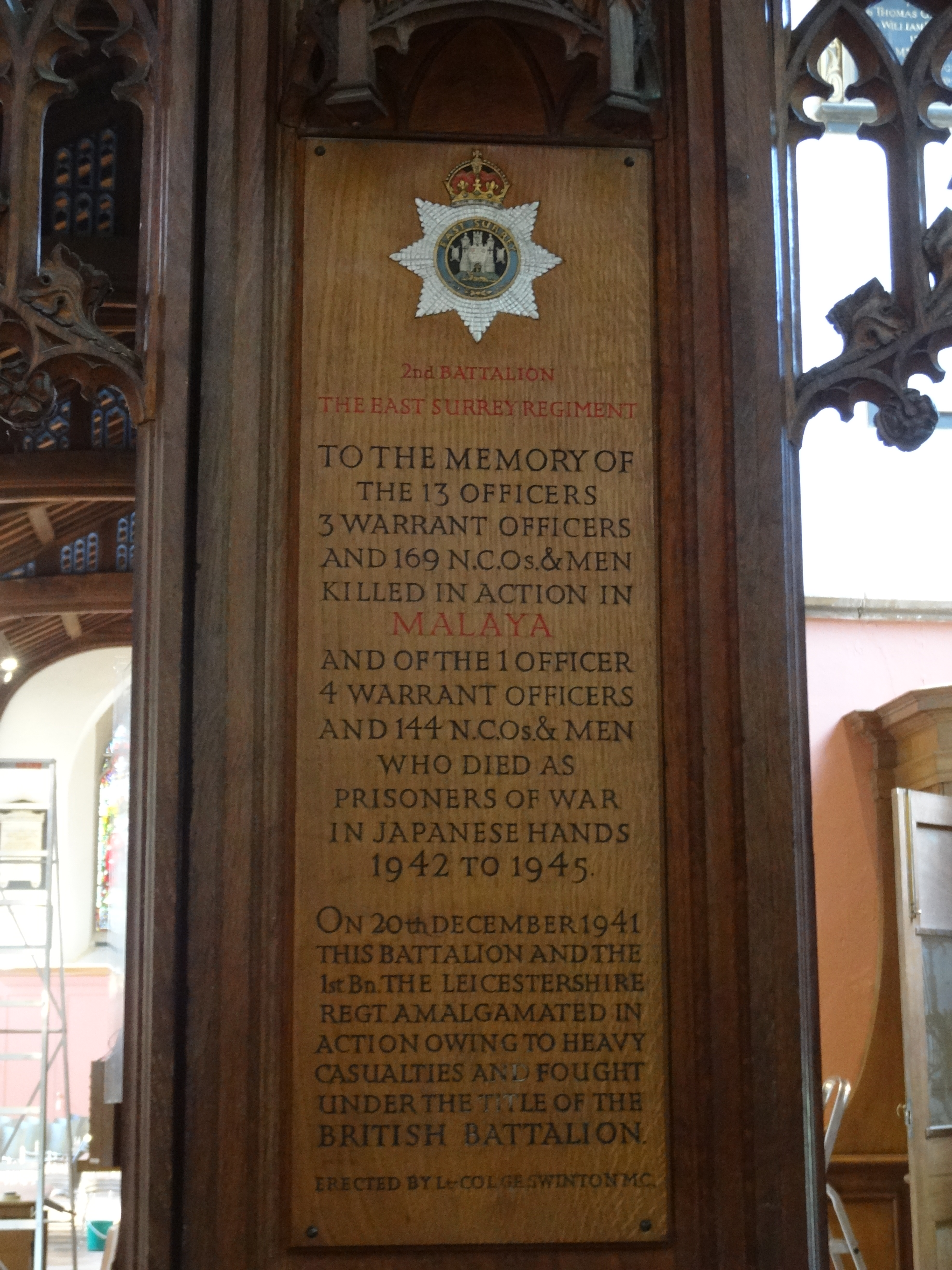 All Saints church, Kingston upon Thames, side chapel commemorating the East Surrey regiment